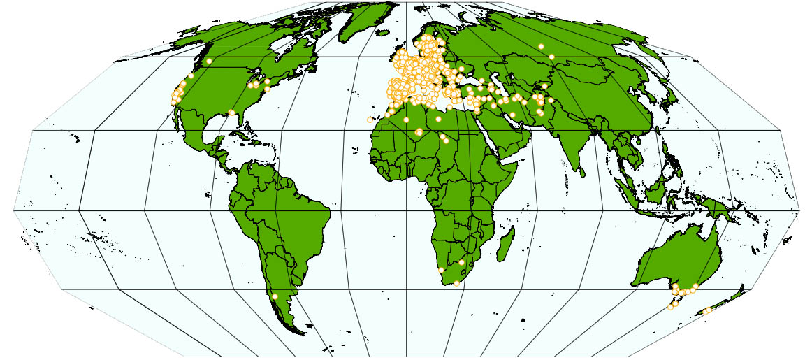 Approximately, 2000 records of Chenopodium vulvaria gathered from published works and various databases. Shown on a map of the world create with Quantum GIS using a Mollweide projection.